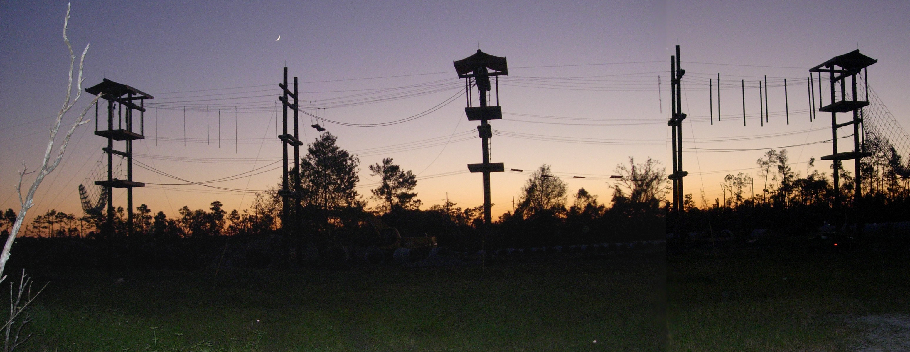 Outdoor Adventure Challenge Course High Ropes Element at the University of Central Floridabuilt by Alpine Towers International Inc.